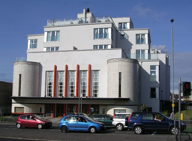 The Ascot, Great Western Road, Anniesland, Glasgow: built in 1939 as the Ascot cinema, renamed the Gaumont 1950, renamed the Odeon 1964, closed 1975. A bingo hall until 1998, the auditorium demolished 2001, apartments built in their place 2002.